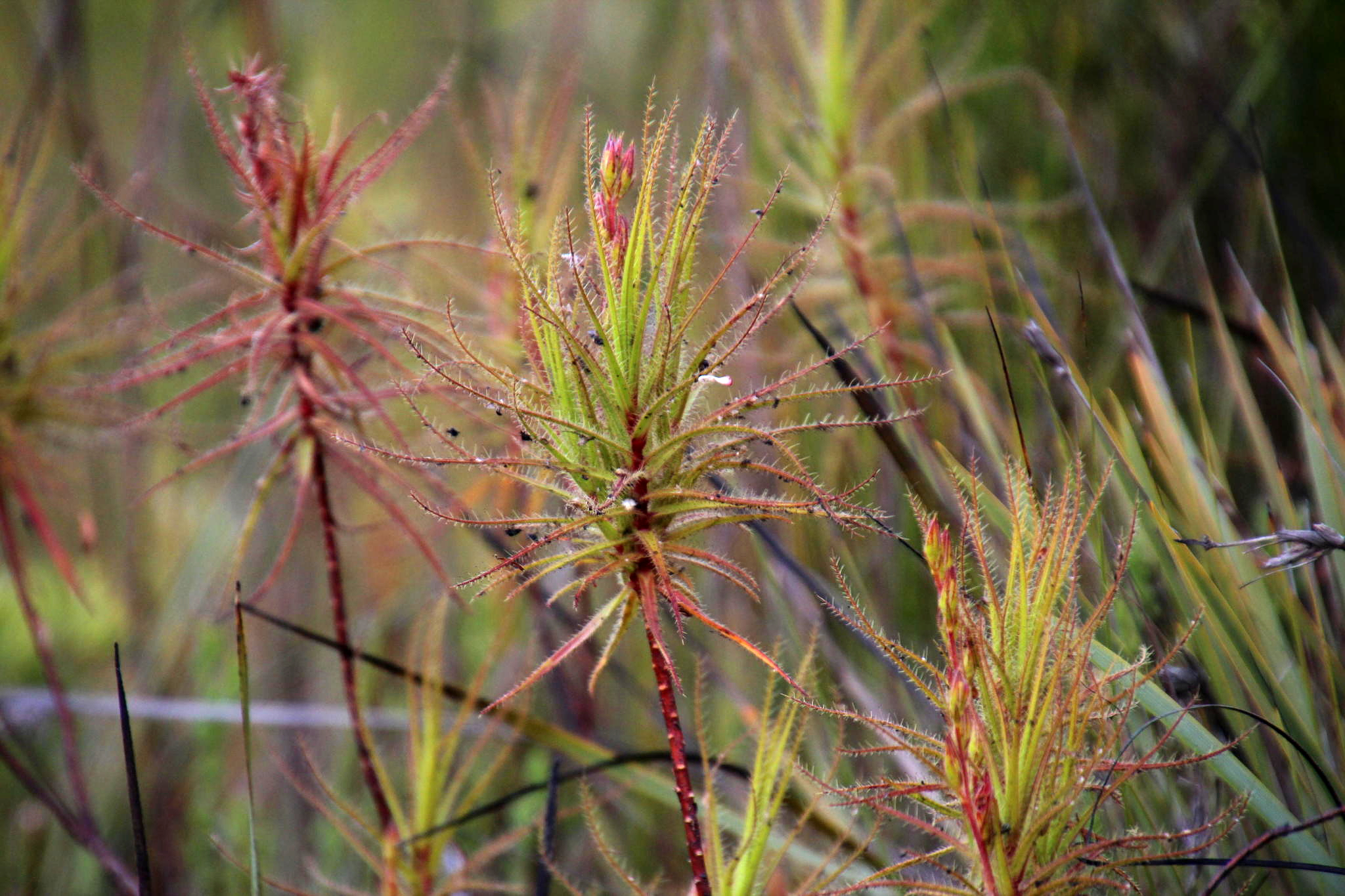 Fly bush, Roridula gorgonias, photographed by Tony Rebelo, on 22 October 2016, at the upper slopes of the Phillipskop Saddle trail, Phillipskop Mountain Reserve, Hermanus County, Western Cape province of South Africa